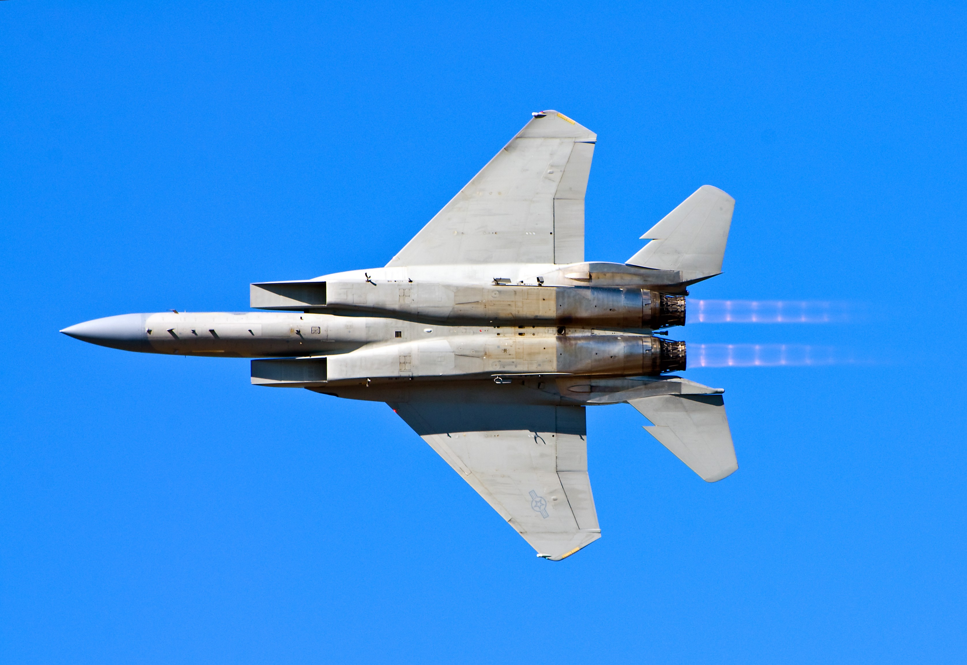 Afterburner